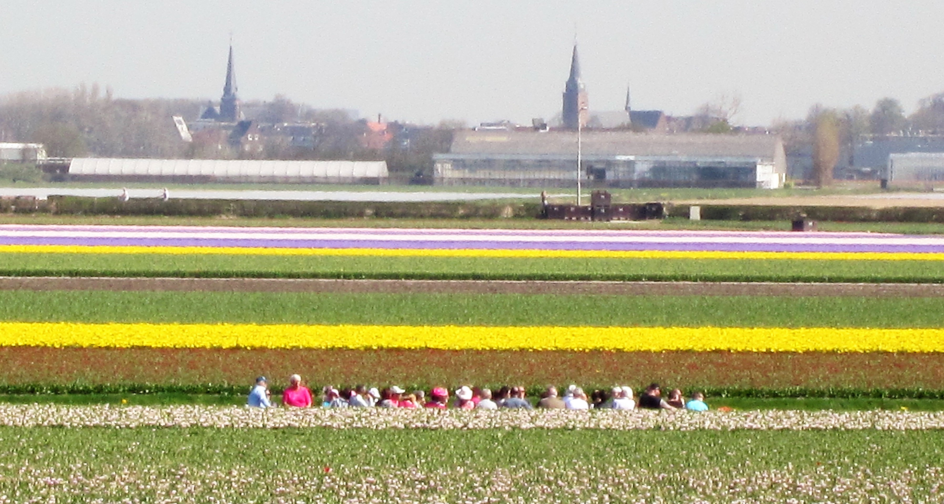 Boat passengers in the middle of flower fields on Lisser Beek